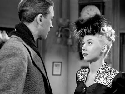 It's a Wonderful Life (film) 1946 Frank Capra, director L to R James Stewart, Gloria Grahame Liberty Films/RKO